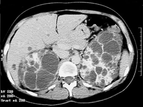 cat scan of person with polycystic kidney disease. PKD is a progressive, genetic disorder of the kidneys.